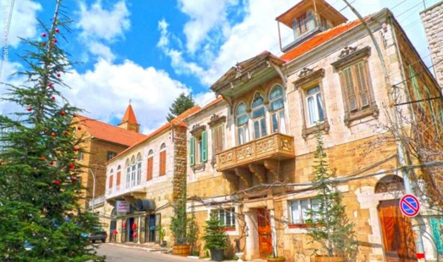 bsharri saint seba street